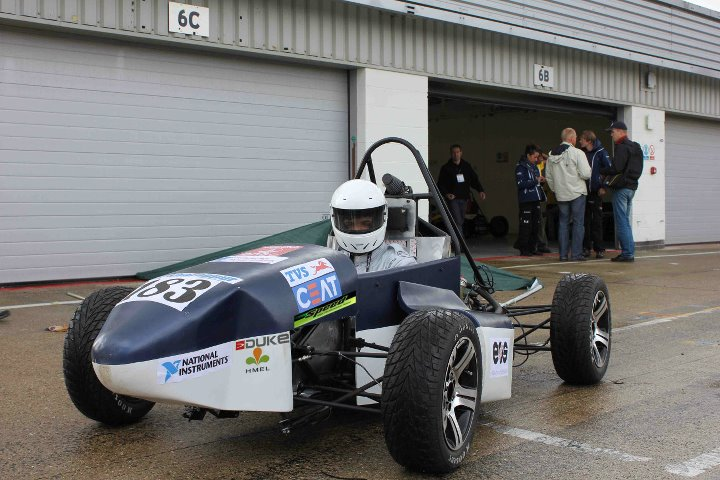 car photo